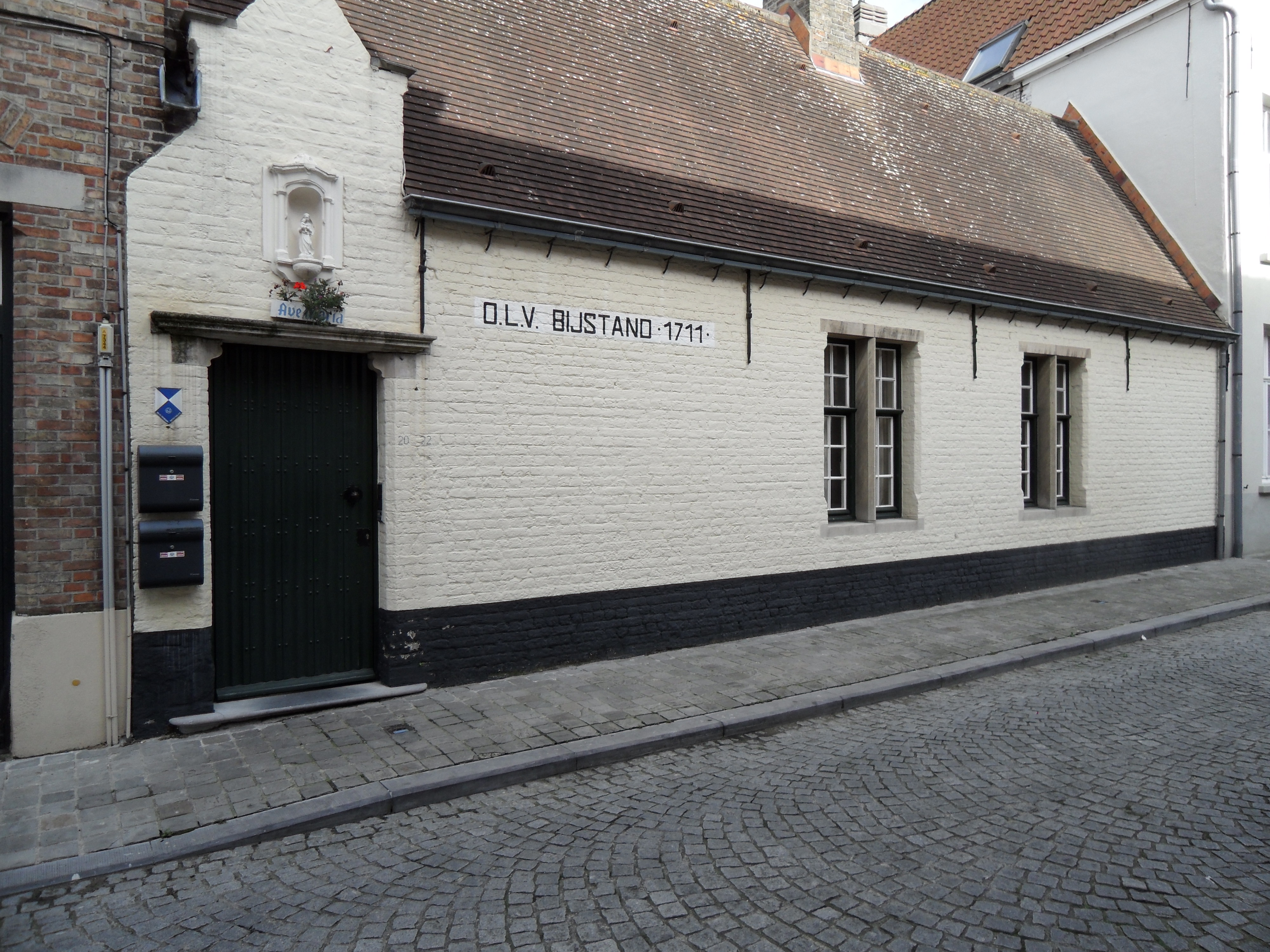 OLV Rozendal